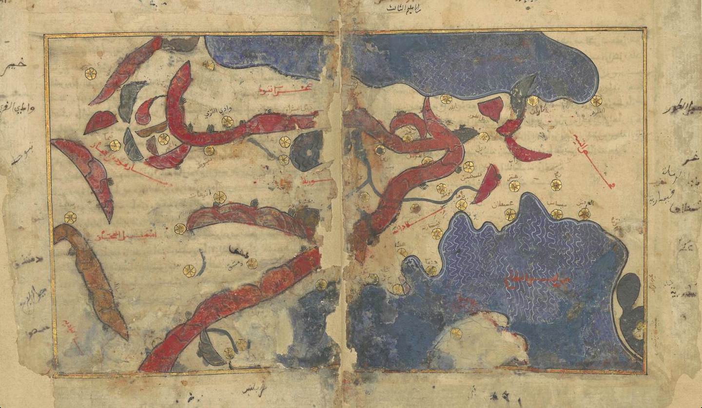 Tabula Rogeriana Muhammad al-Idrisi map of Syria, Palestine, Sinai. North is towards the bottom of the map, the island partly shown on the bottom right is Cyprus, the Arabian Peninsula is toward the top-left, the Red Sea is on the top, Palestine is in the center with the Jordan River flowing strangely to Sinai shown on the right. Orientation of objects deviates slightly from the reality, notably the Eastern Mediterranean Sea border. On the bottom-right corner is a part of the Nile River delta. Map is from pages 130v-131r of the folio as shown here.